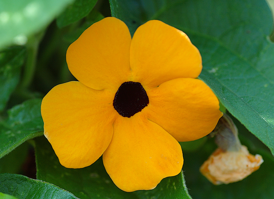 This image shows a Black-Eyed Susan Vine (Thunbergia alata).